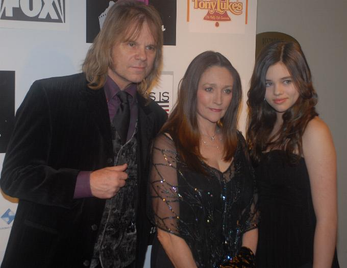 March 10, 2008: Cinema City Film Festival